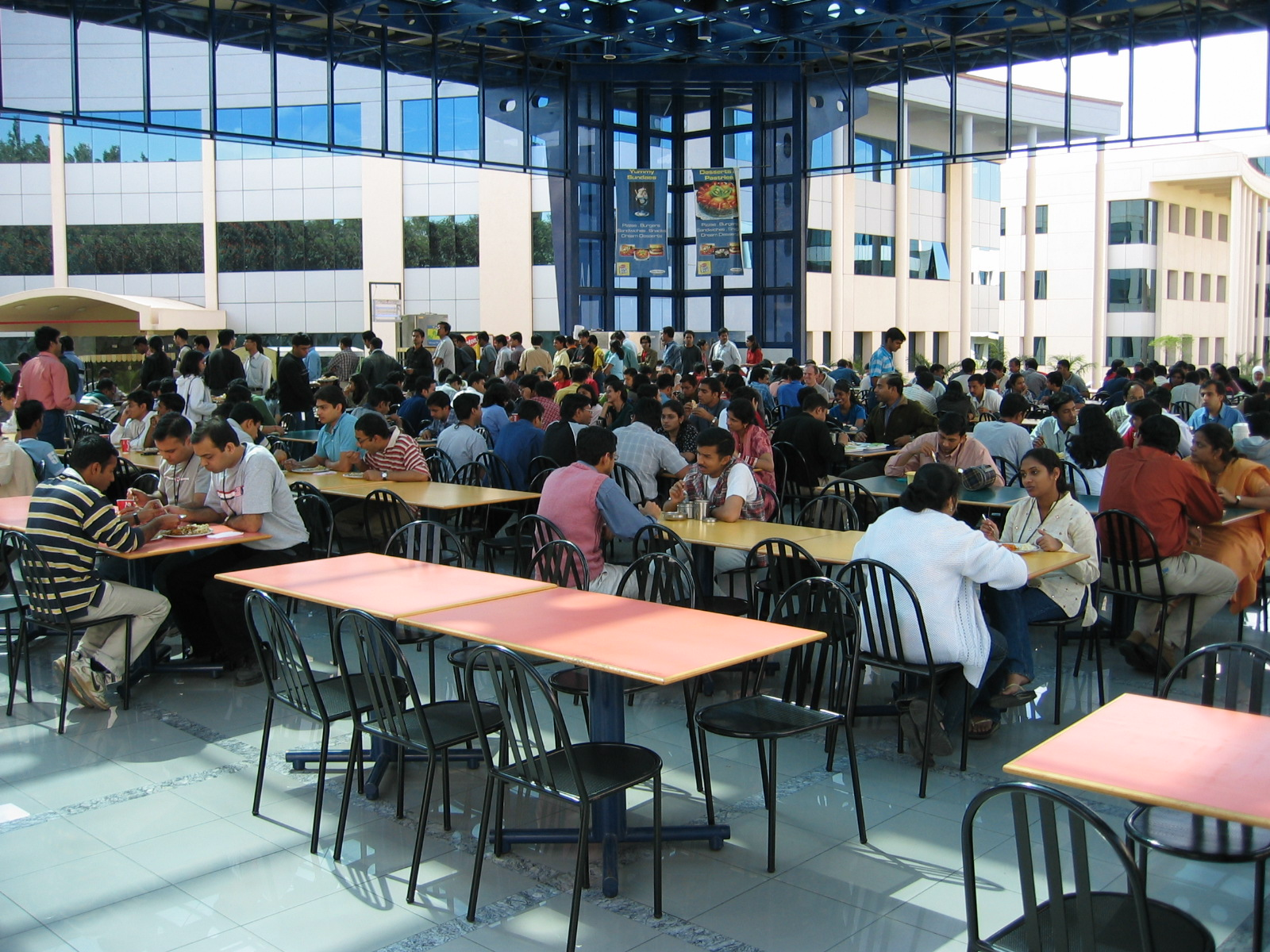 A cafeteria at Electronic City campus, Infosys Technologies Ltd., Bangalore, India. Date: December, 2003 Photo by User:Zondor.